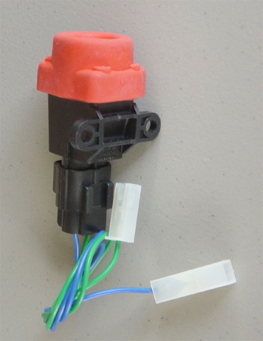 Intertial switch. Commonly used in specialized automotive applications to disable an electric fuel pump. Contains a caged mass that when shocked releases a spring loaded switch. Reset by pushing the cage top down through the flexible red cover. Image by User:Leonard G.